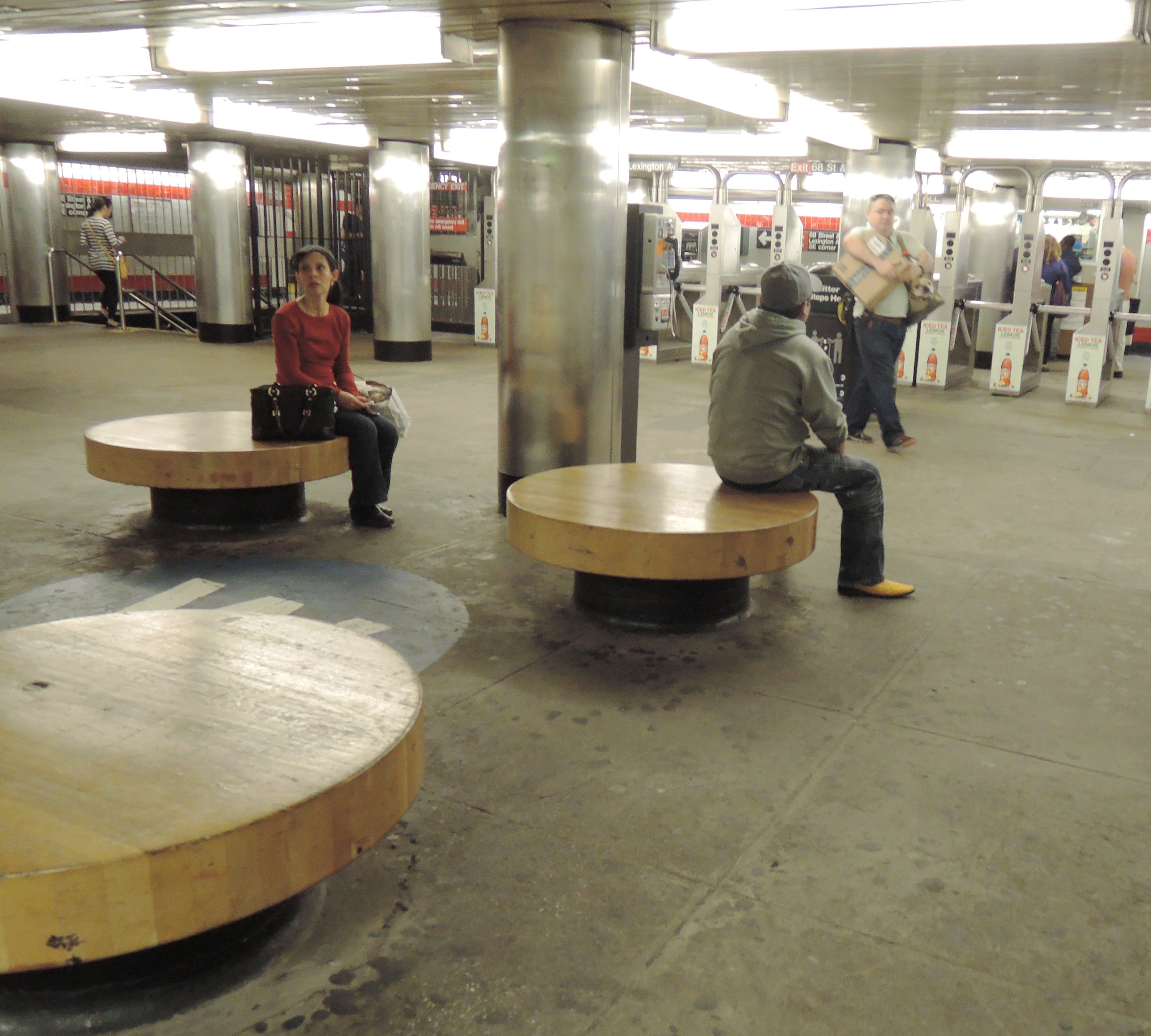 Looking south on mezzanine.